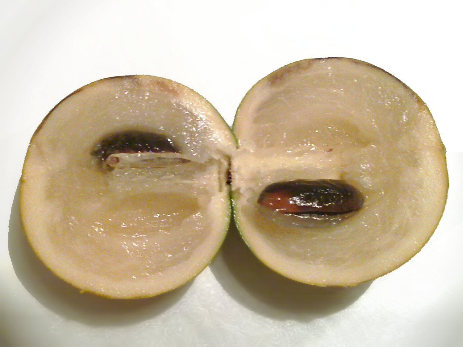 The flesh of ripe Abiu fruit is pale and of a custard consistency with one to a few seeds.